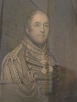 Portrait General Sir Henry Fane